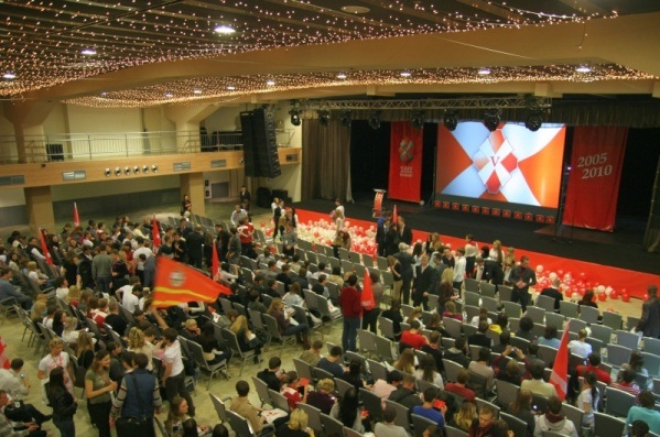 V Congress of the youth movement NASHI